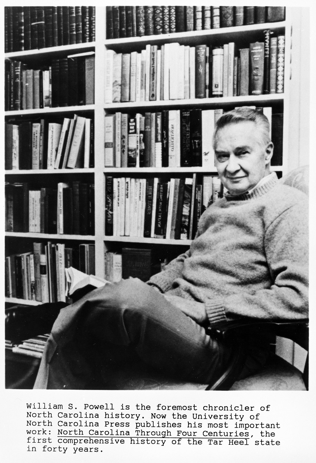 William S. Powell (Bill Powell) in UNC Library, c.1980s. 'North Carolina Through Four Centuries' was published by UNC Press in 1989 and it won the 1989 Mayflower Cup for Nonfiction, Society of Mayflower Descendants in the State of North Carolina. From the General Negative Collection, State Archives of North Carolina.